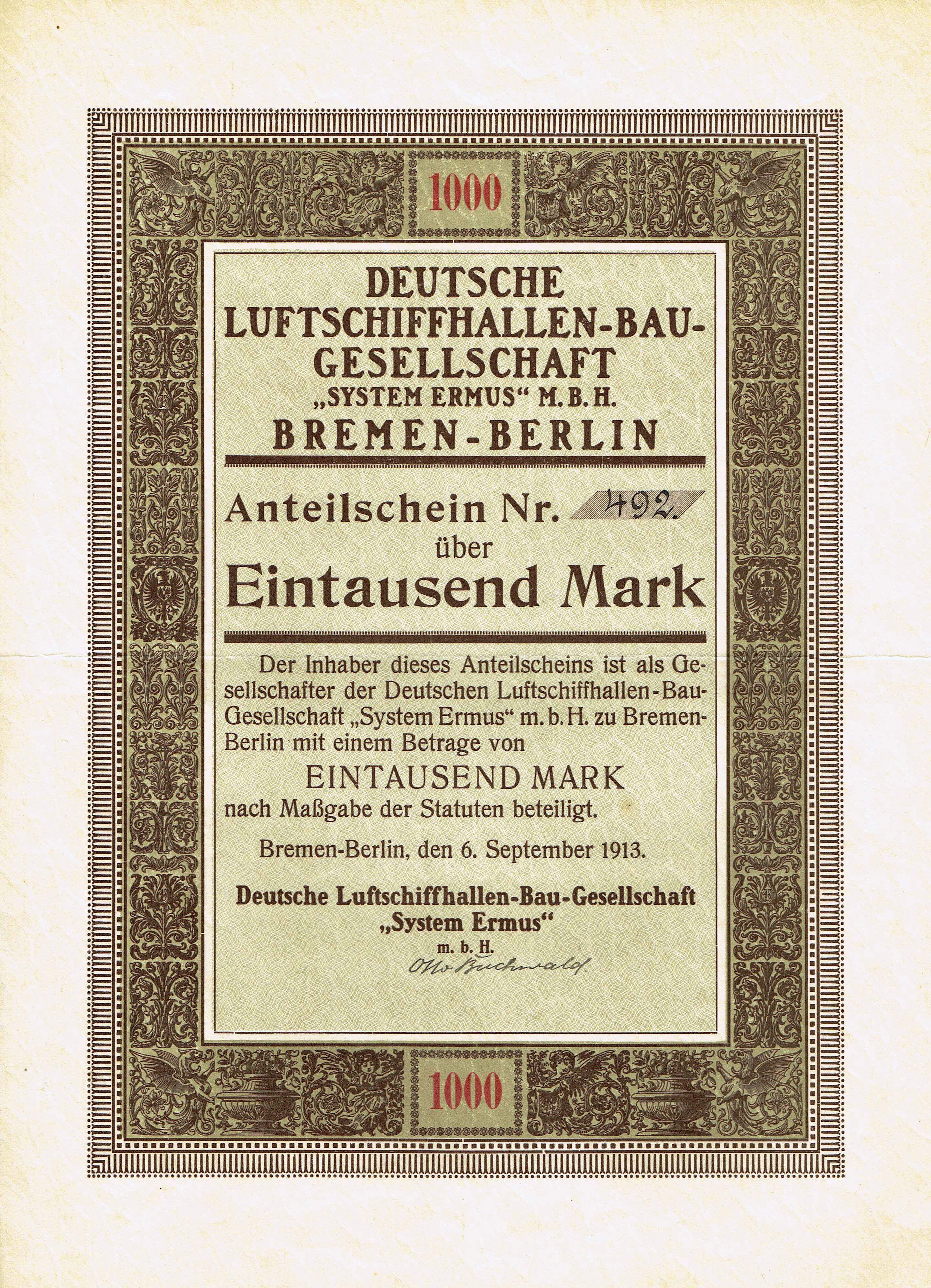 Share certificate of the Deutsche Luftschiffhallen-Bau-Gesellschaft "System Ermus" mbH, issued 6. September 1913